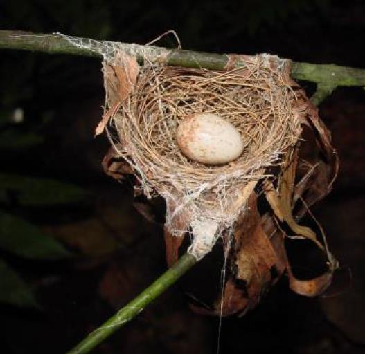 Blue-crowned Manakin (Lepidothrix coronata) nest with one egg